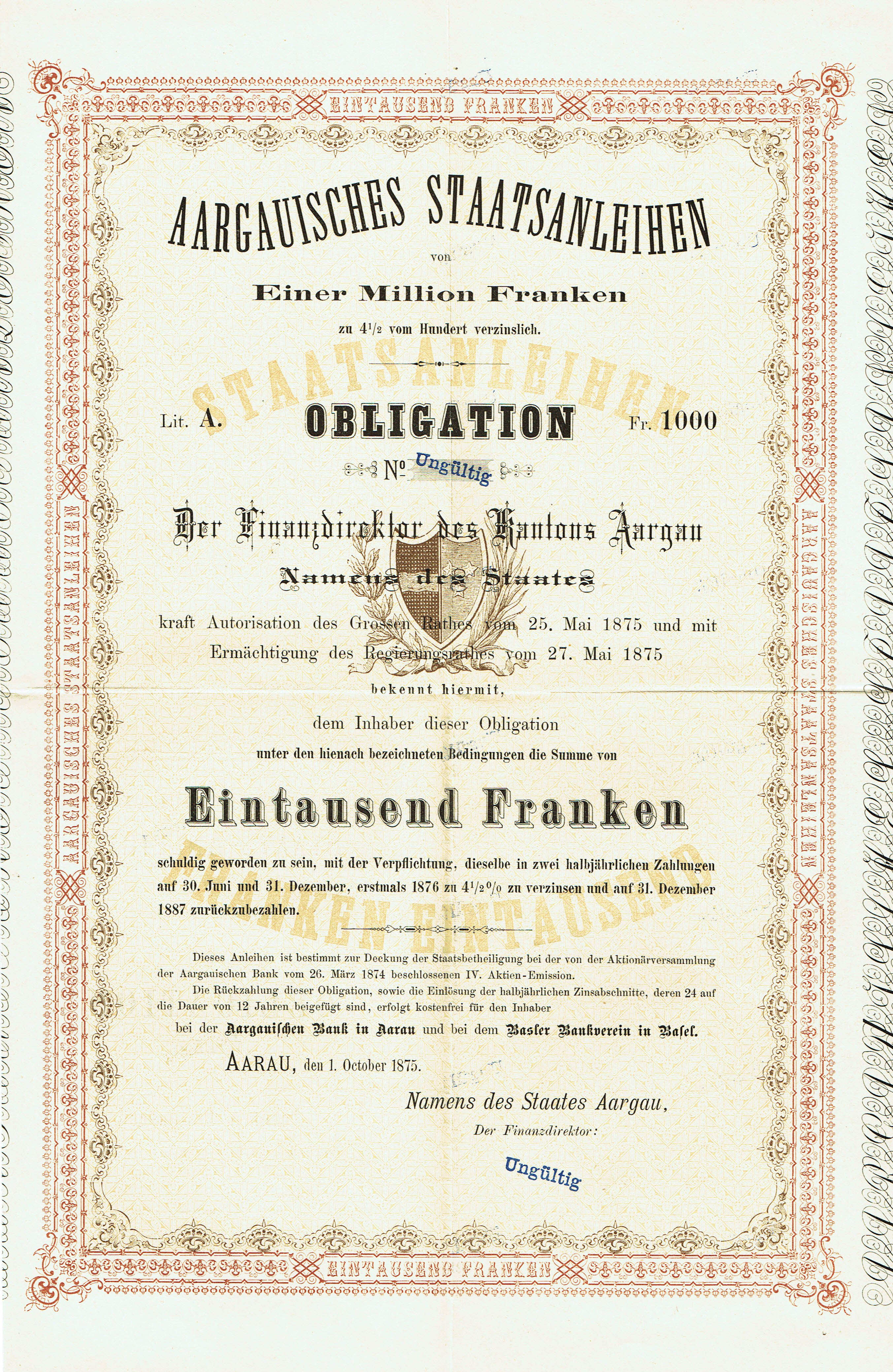 Bond of the canton of Aargau, issued 1. October 1875